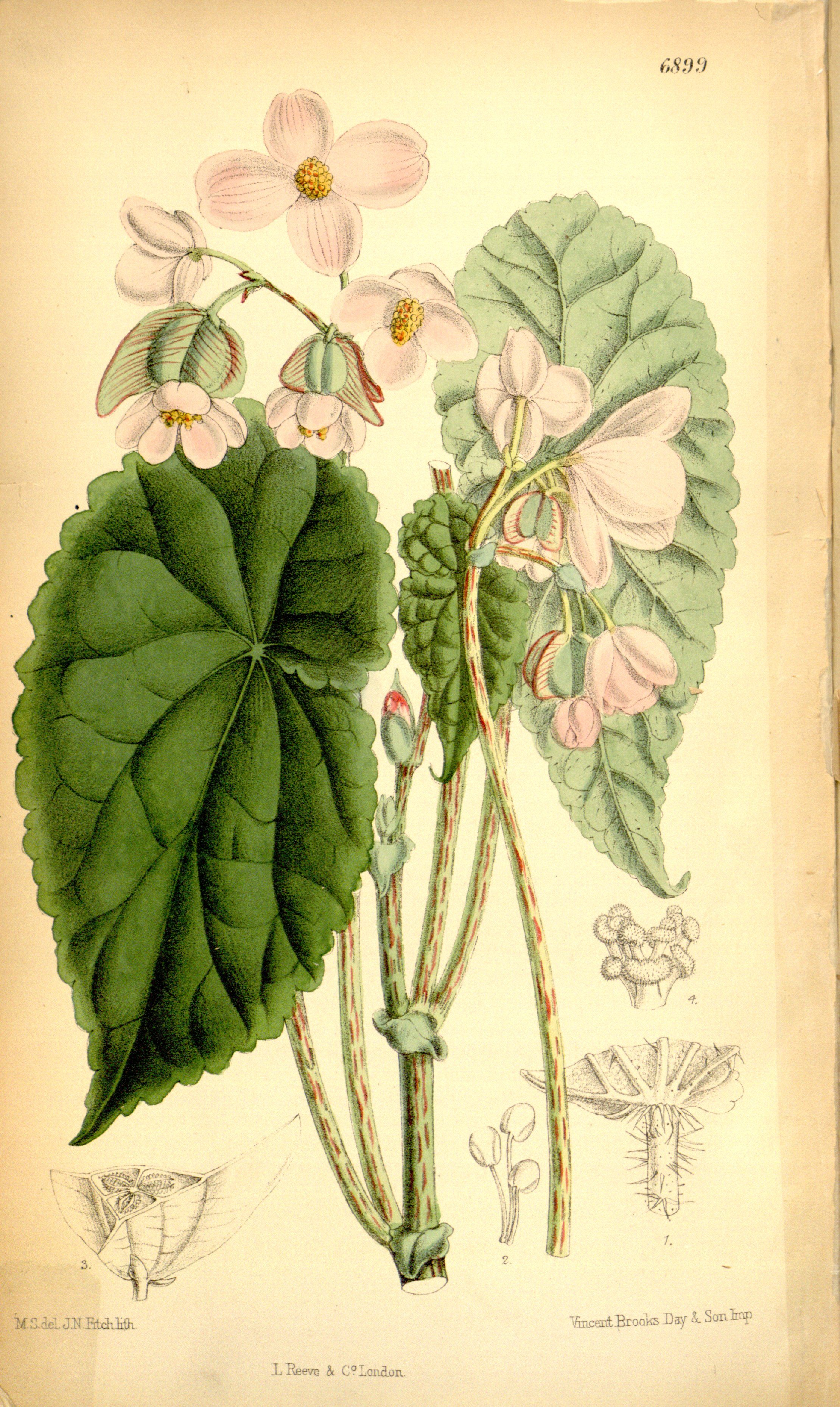 Begonia johnstonii Oliv. ex Hook.f. -- Bot. Mag. 112: t. 6899. 1886